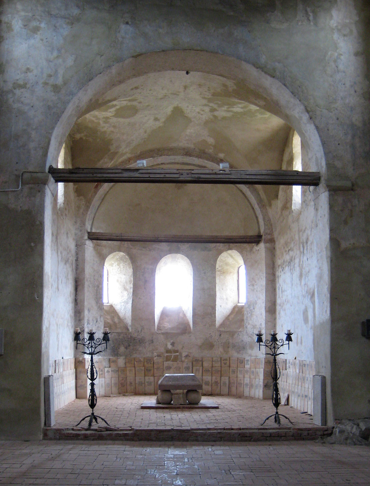 Choir of the Fortified church of Cisnădioara (Michelsberg), Transylvania